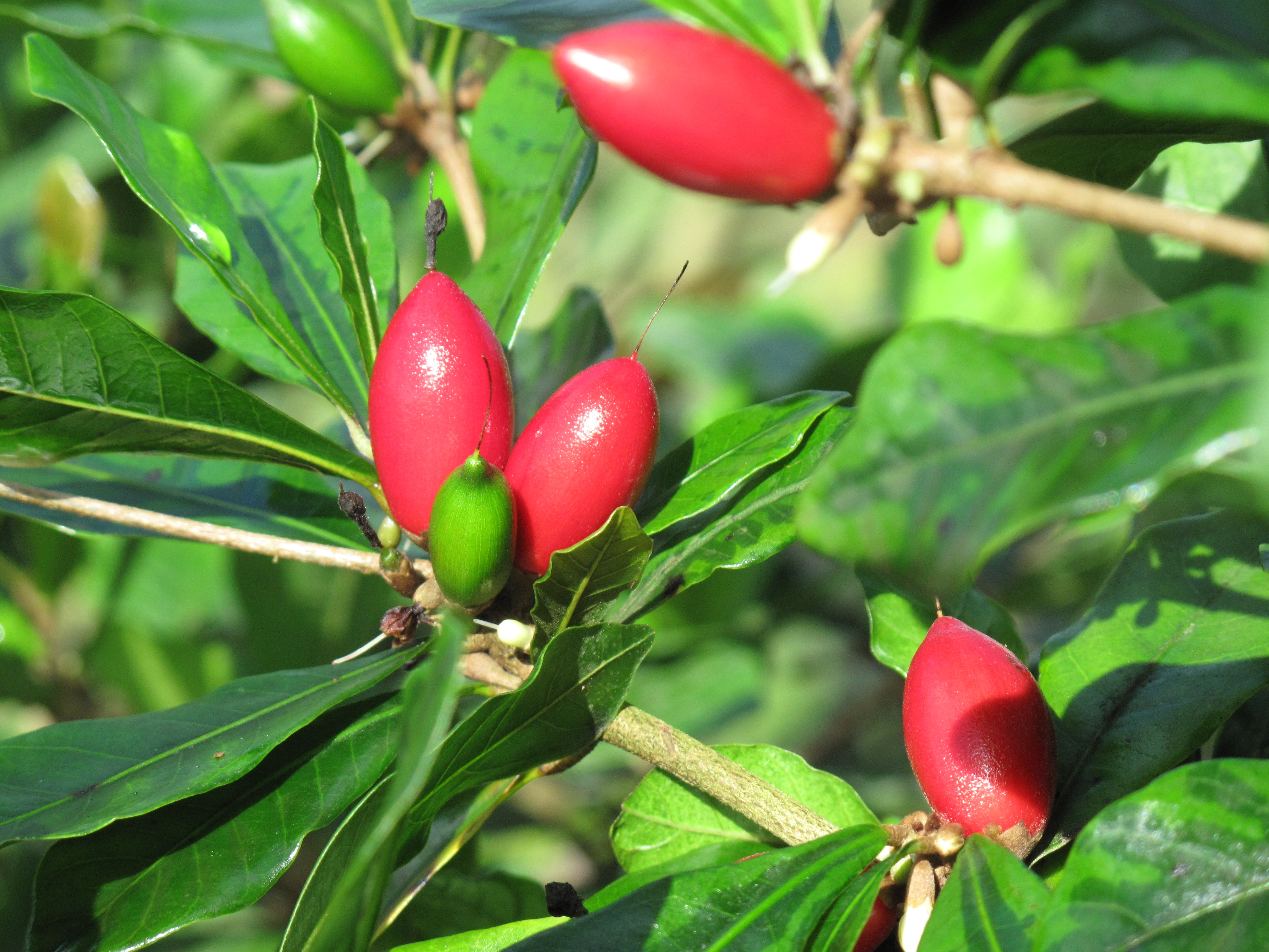 Miracle Fruit plants bear fruit throughout the year in warm, humid climates. A single plant can hold hundreds of berries at a time.